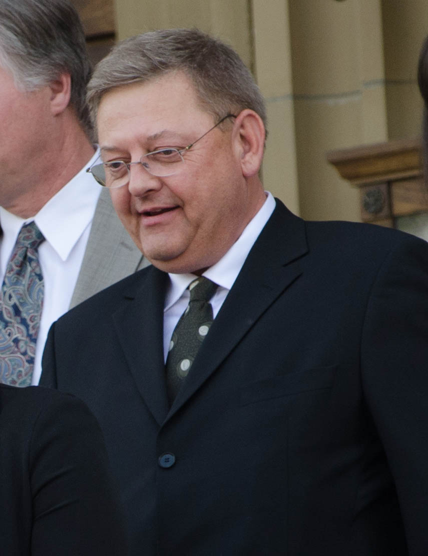 Lorne Dach at the 2015 Alberta Premier/Cabinet swearing-in ceremony, by Connor Mah.